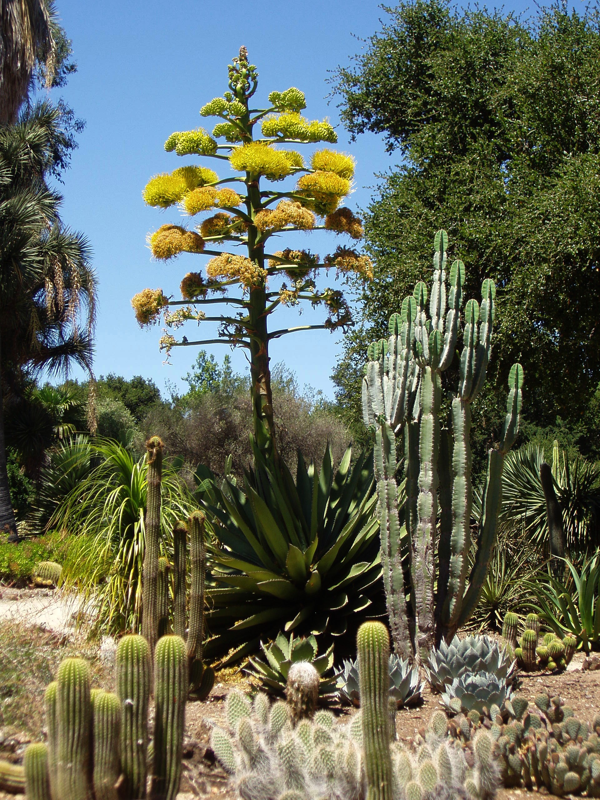 Part of the Arizona Cactus Garden, Stanford University, Stanford, California, USA.